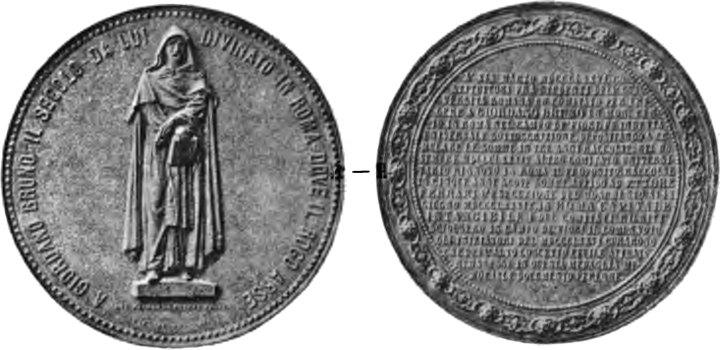 image from "Rivista italiana di numismatica 1890.djvu p. 269 (../284) Medal w. Monument of Giordano Bruno at Campo de' Fiori in Rom